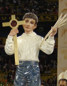 beatification of José Luis Sanchez del Rio in the stadium of Guadalajara Mexico